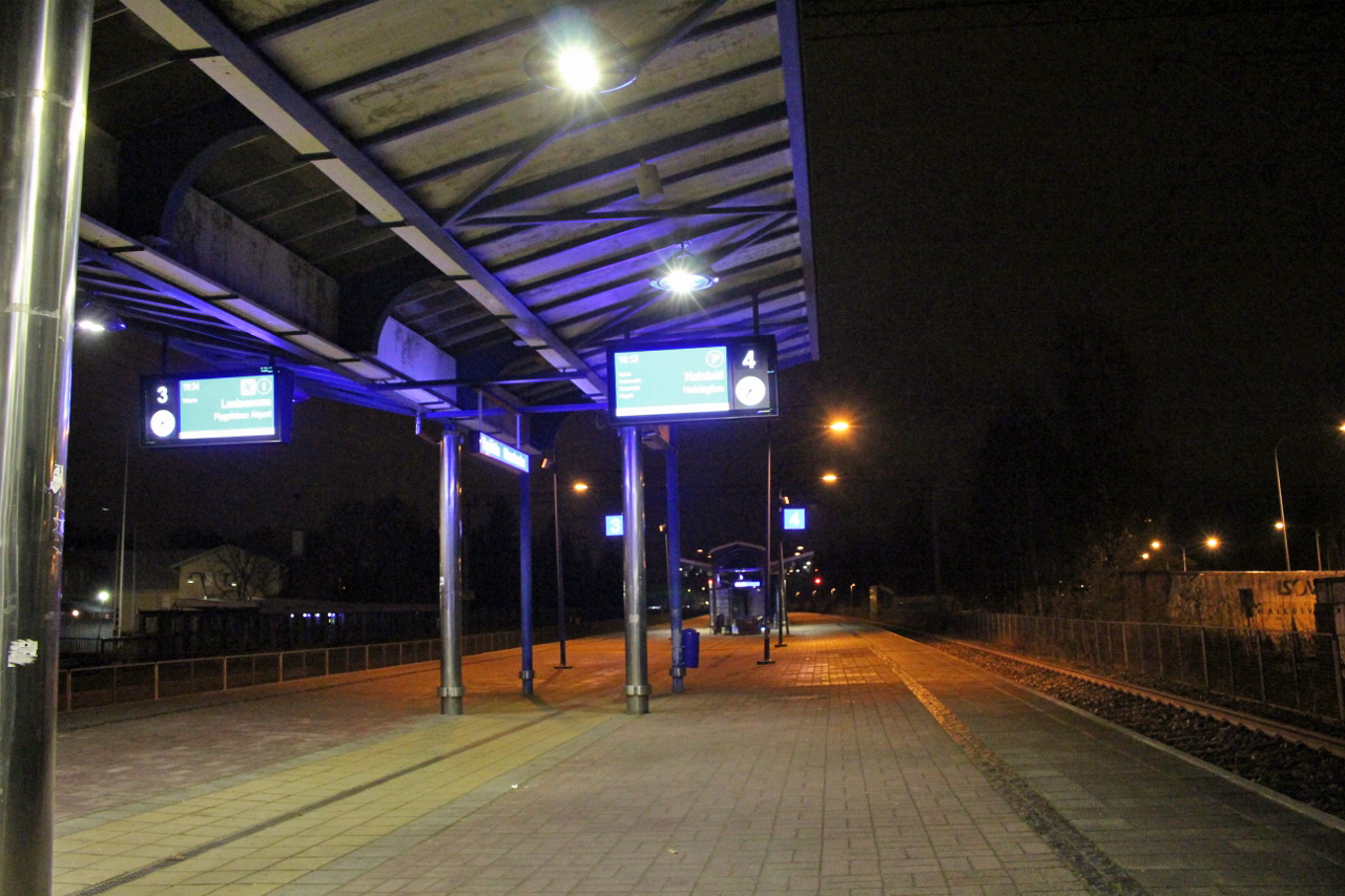 At Tapanila Railway Station in the evening